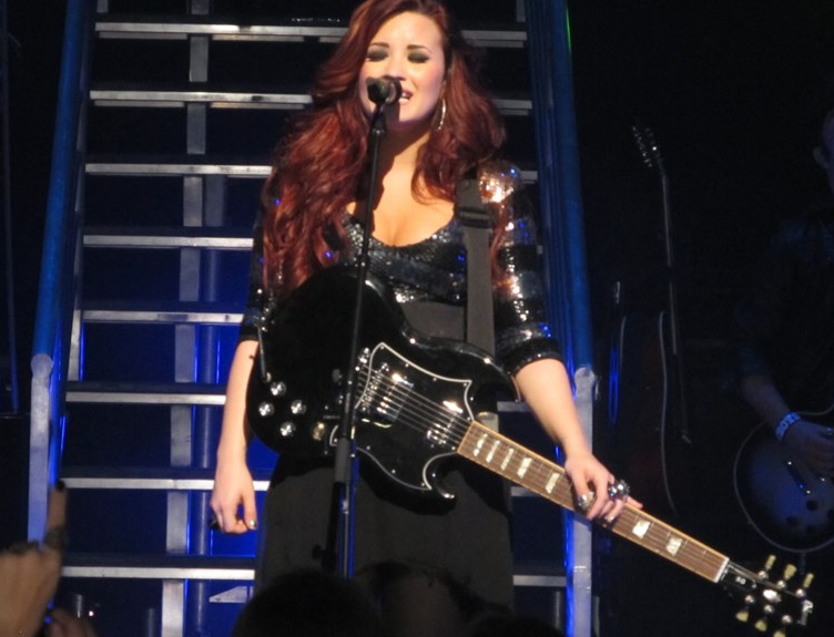 Demi Lovato: (We The Kings) in December 2011.